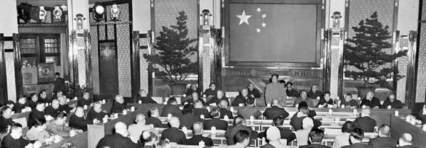 Mao Zedong on the Supreme State Conference, May 2nd, 1956, when Mao announced "The policy of letting a hundred flowers bloom and a hundred schools of thought contend is designed to promote the flourishing of the arts and the progress of science".